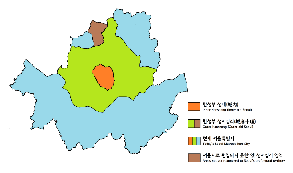 Map of old Hanseong City (today's Seoul), the capital of Joseon